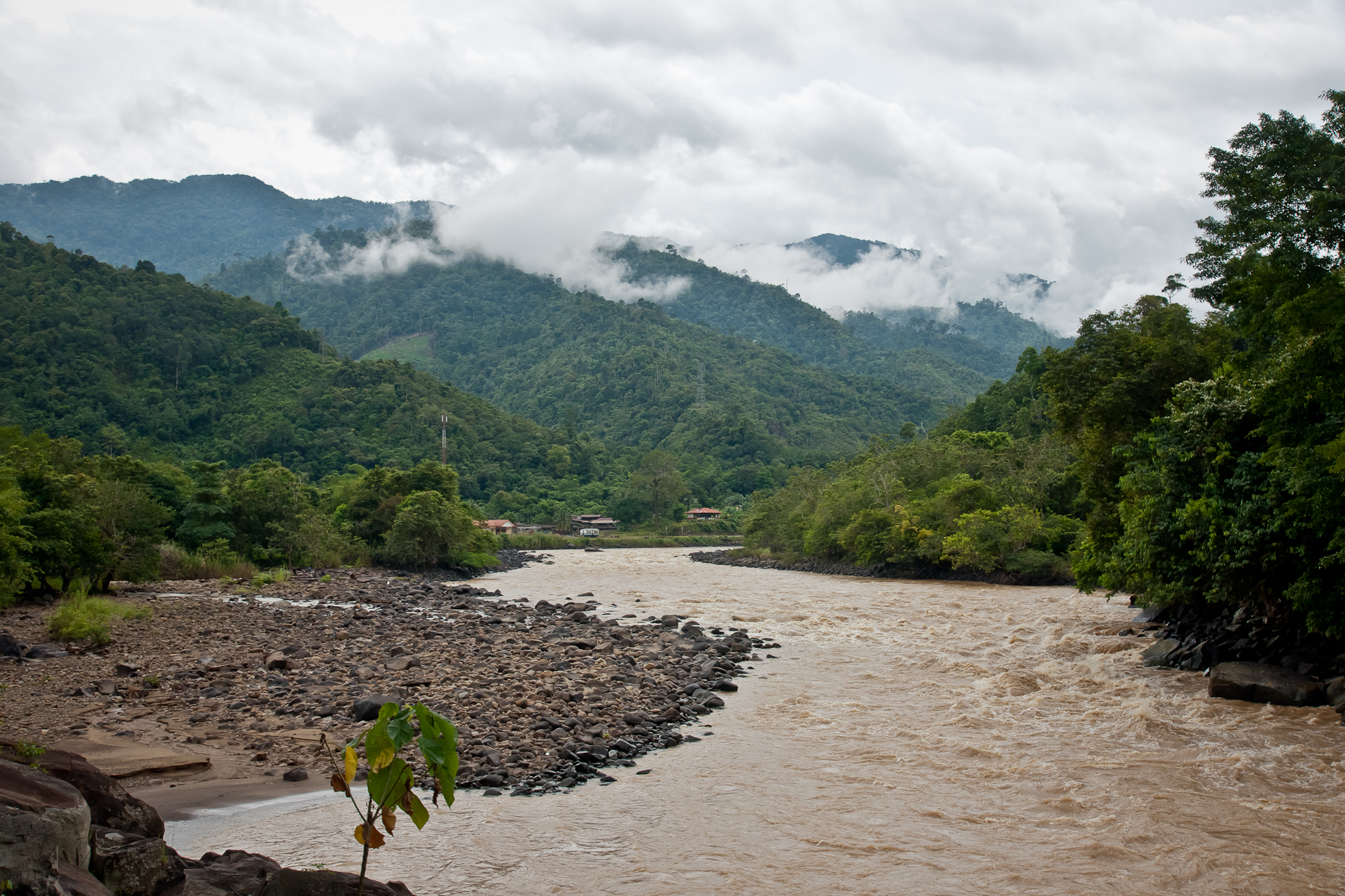 Sungai Padas (Padas River) between Beaufort and Tenom